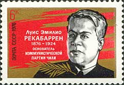 A USSR stamp